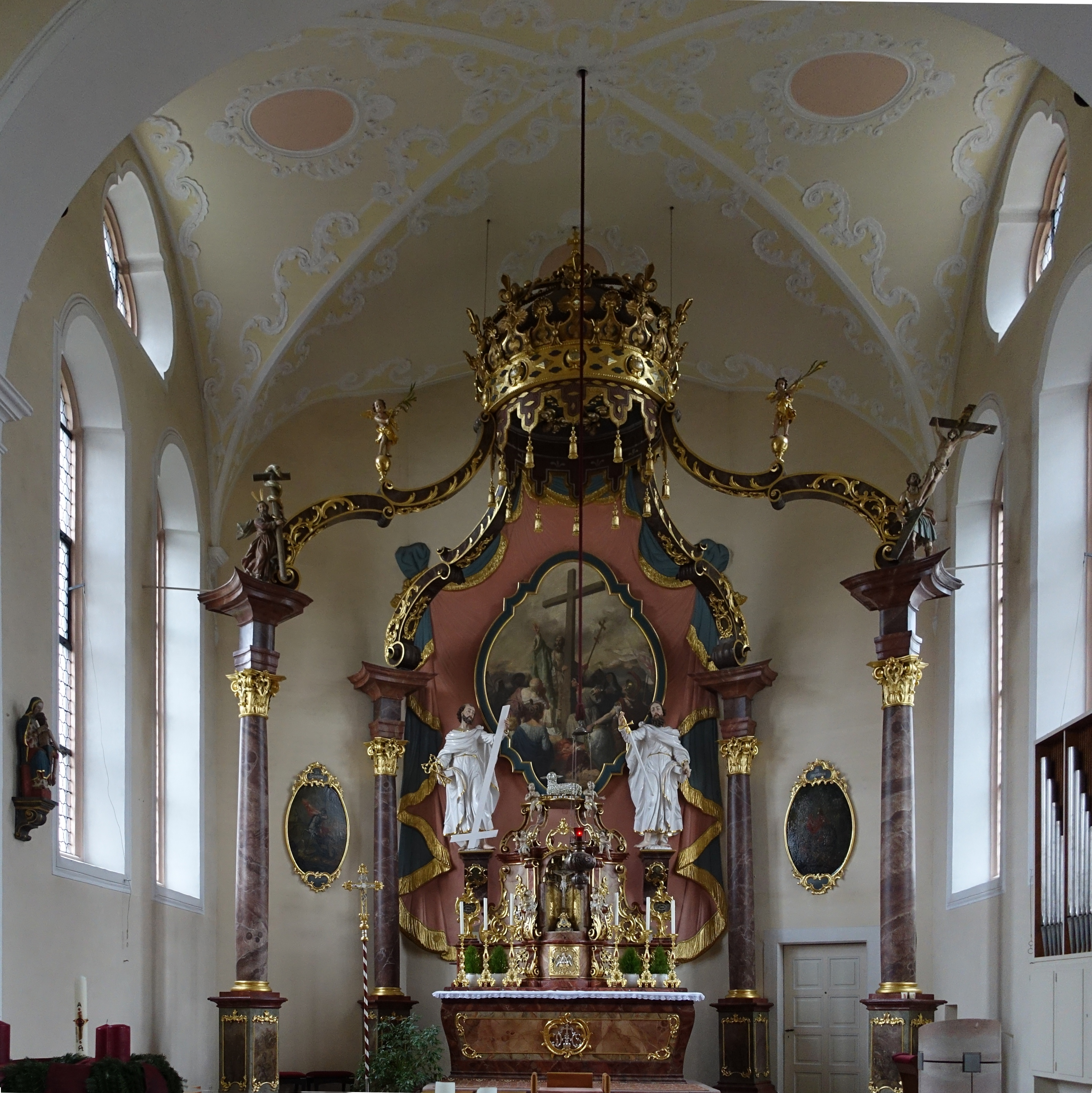 Kreuzerhöhung church in Steinach (Ortenaukreis), main altar